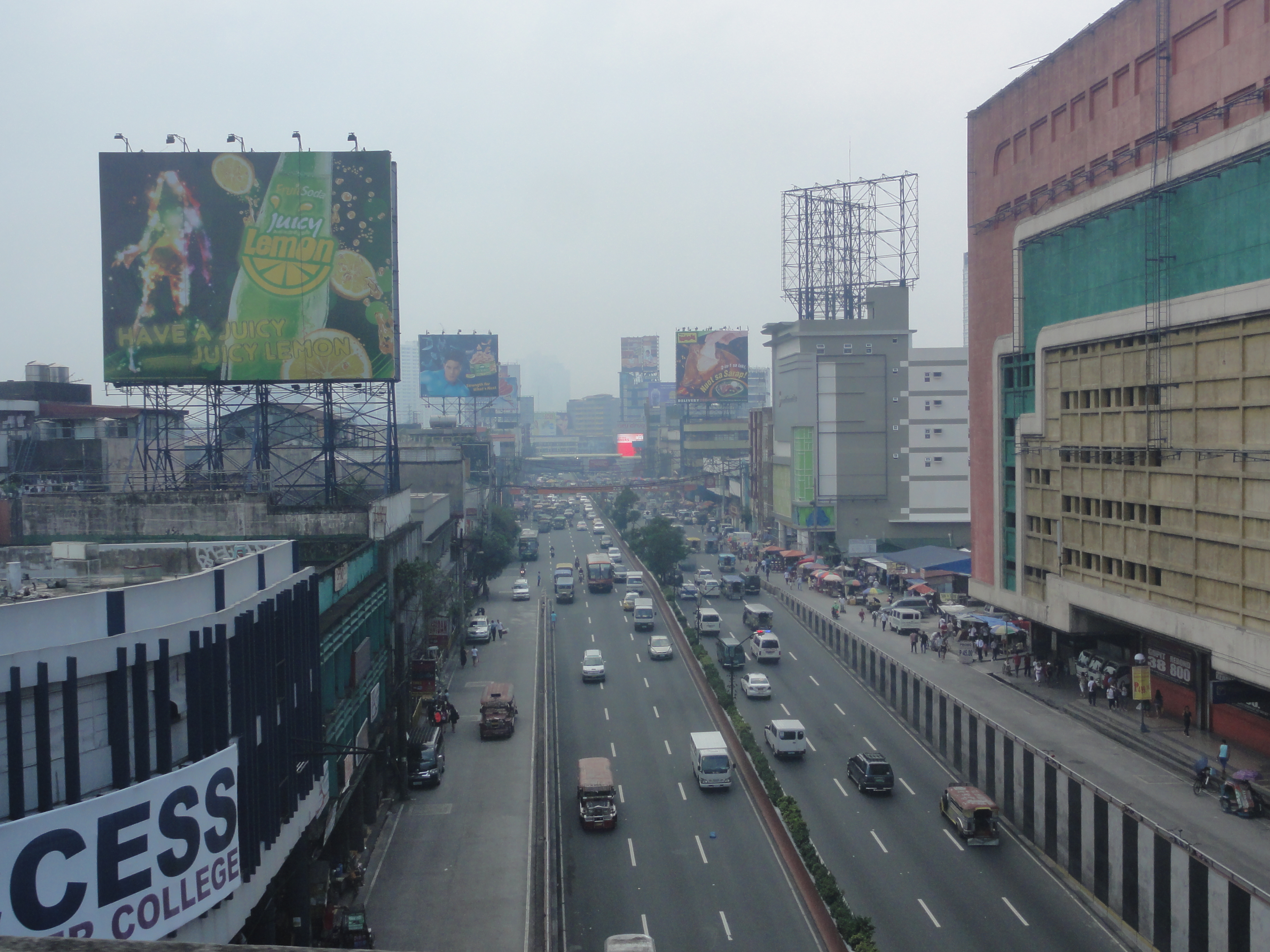 View of Quezon Boulevard with Isetann Recto Mall Manila